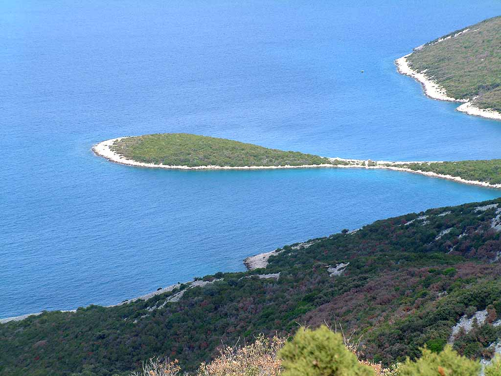 Peninsula, Island of Lošinj, Croatia